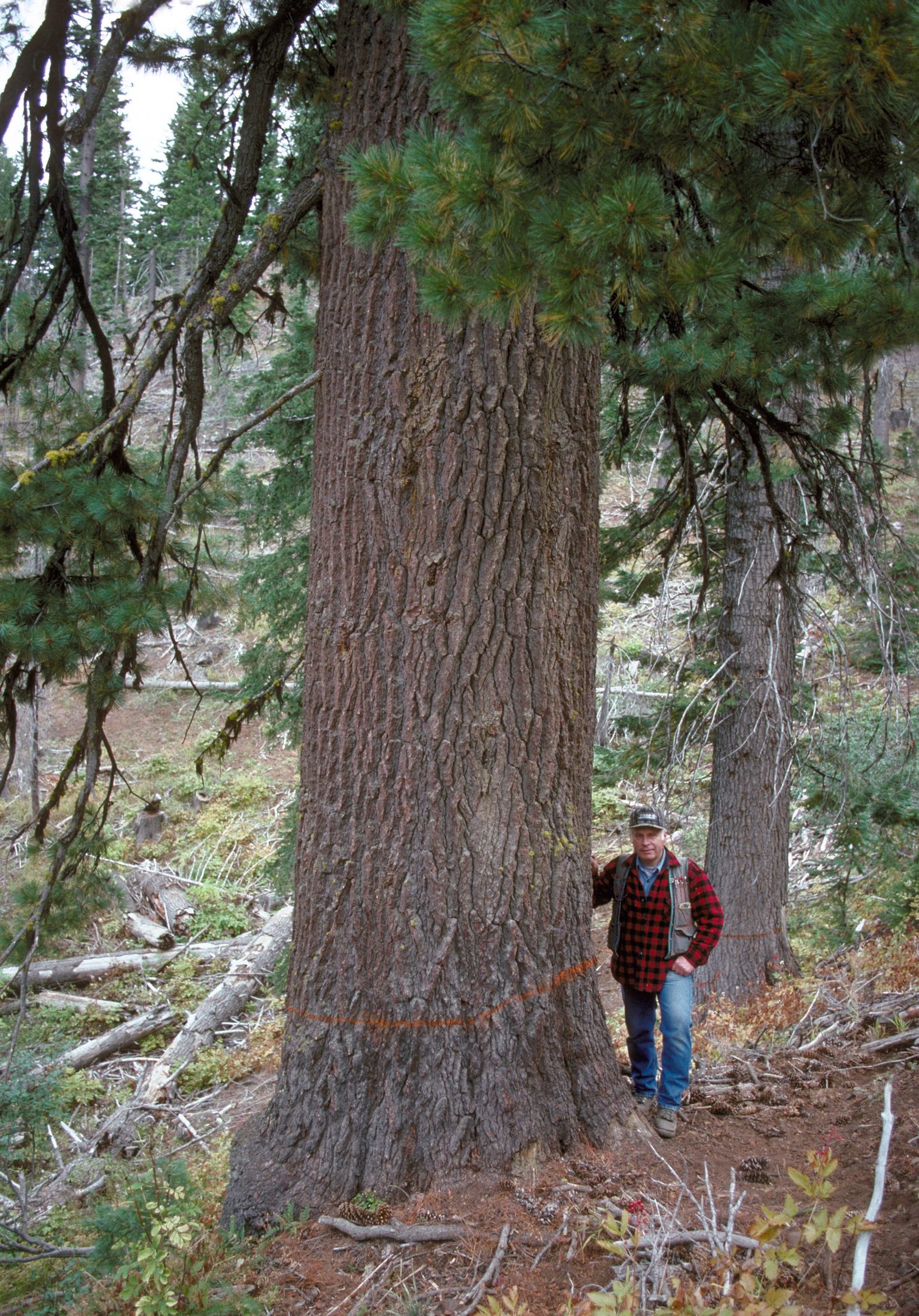 Pinus monticola, very large tree, Pomeroy Ranger District, Umatilla National Forest, southeastern Washington.